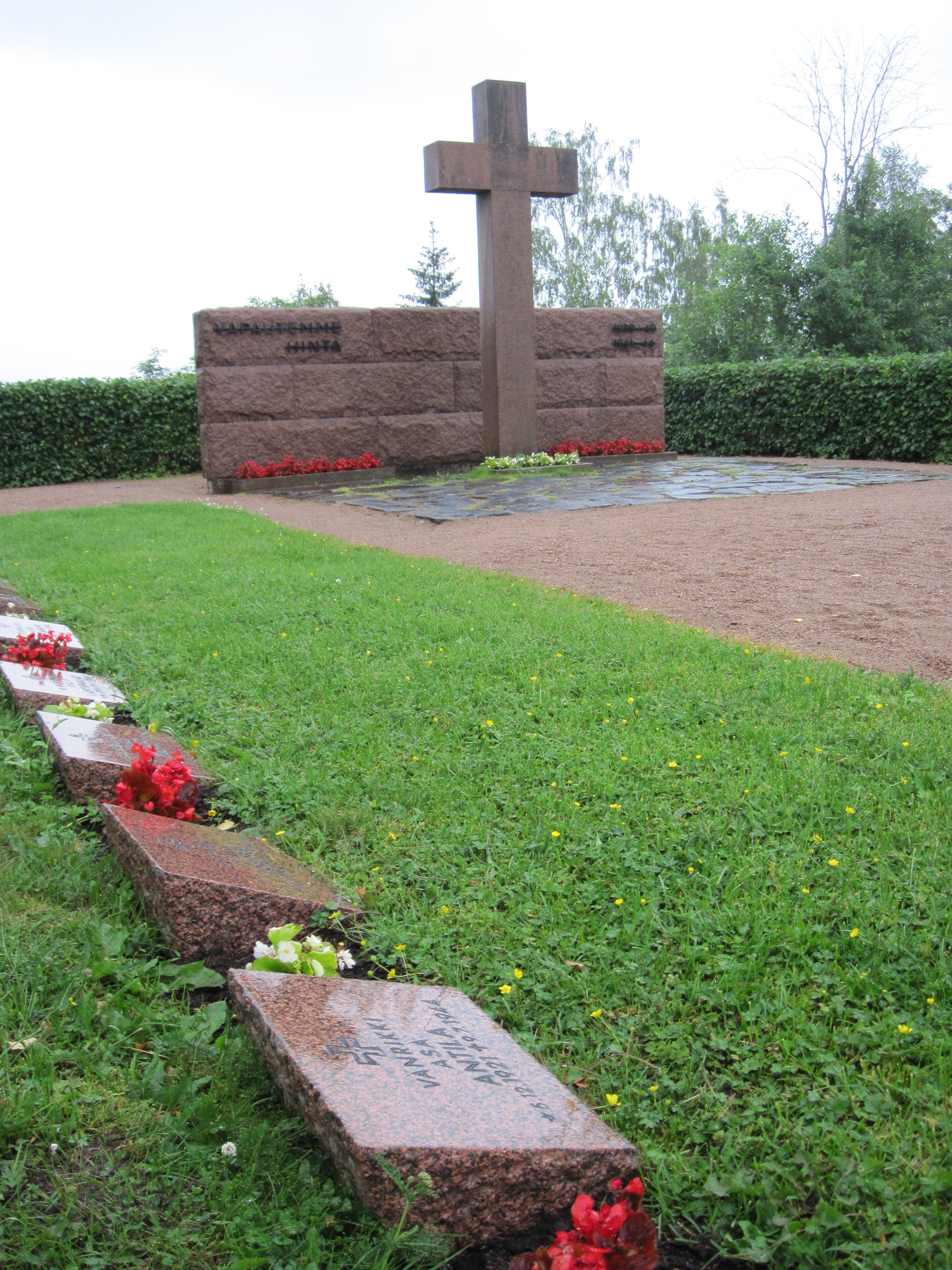 Military cemetary at church in Suodenniemi , Finland